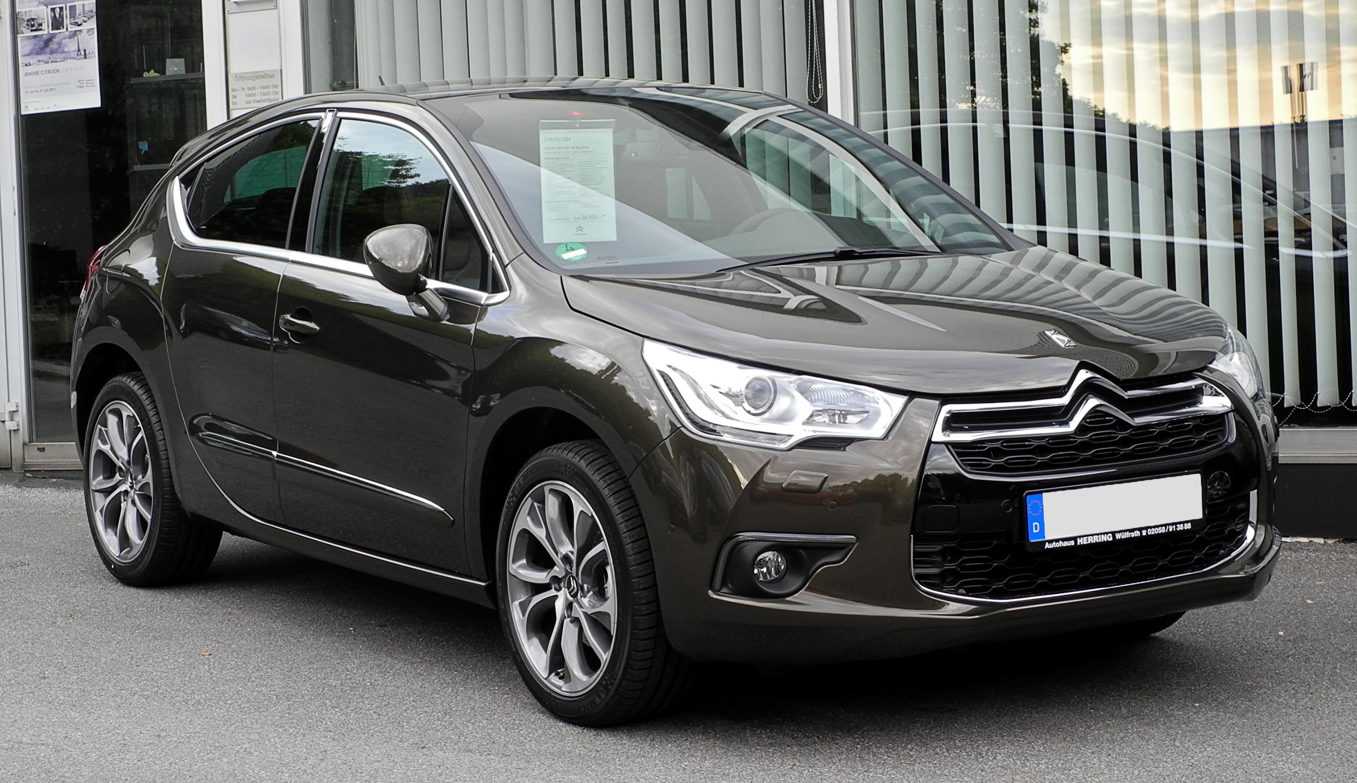 Citroën DS4 HDi 165 SportChic